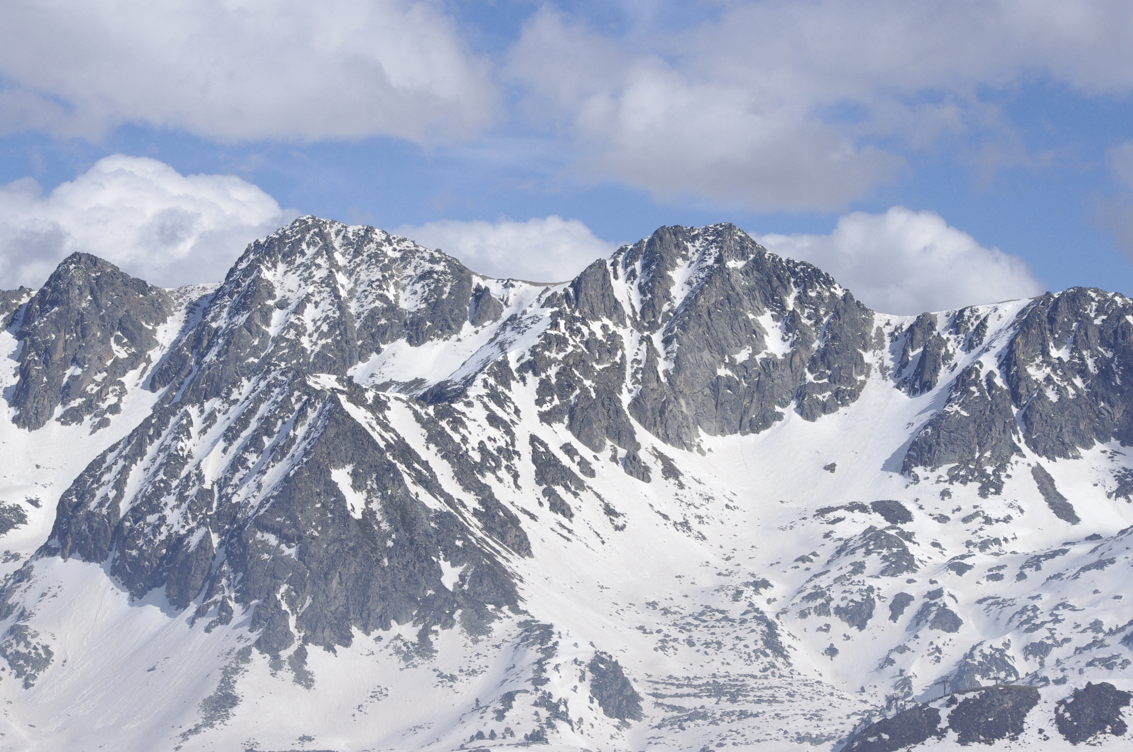 Port d'Envalira